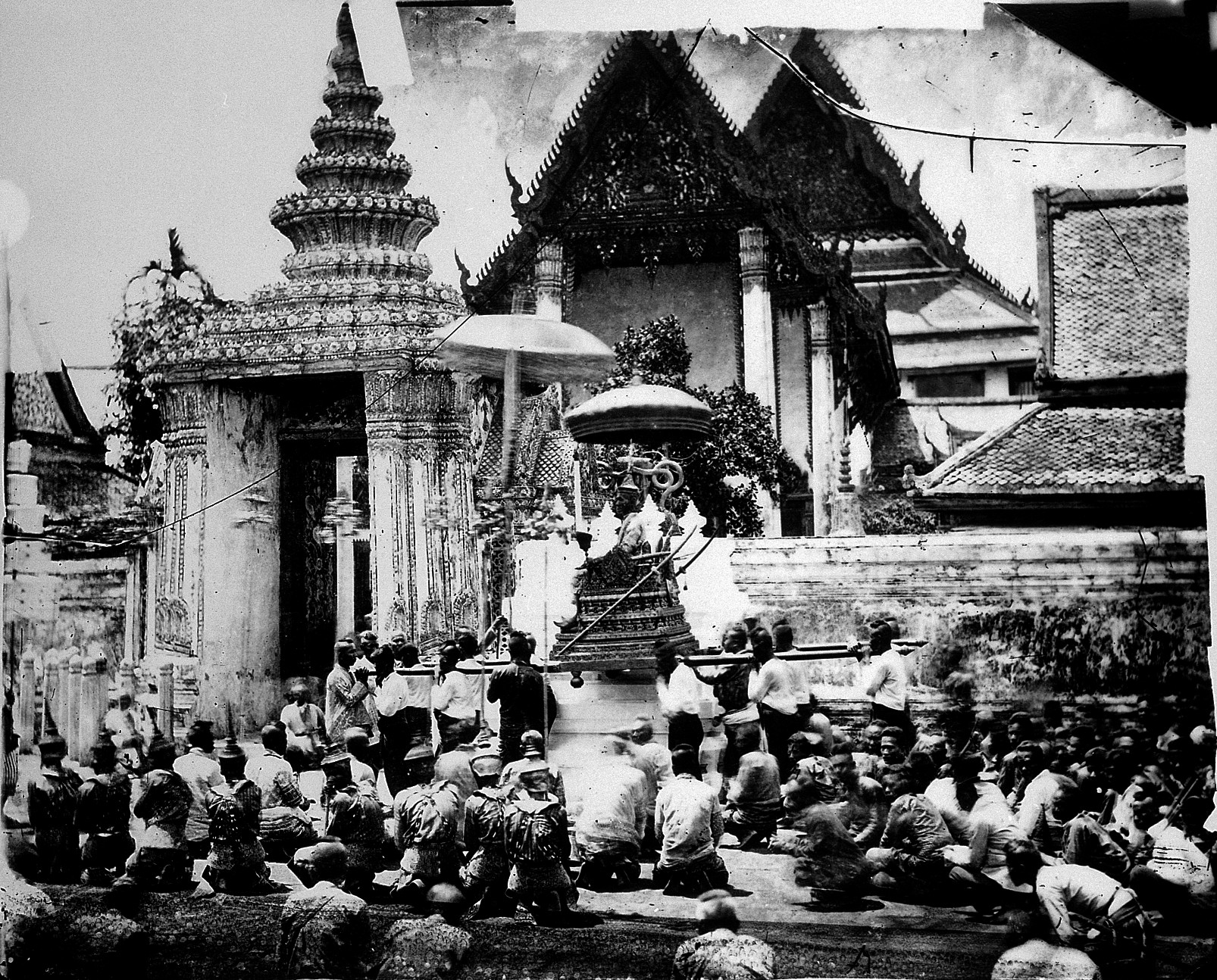 Arrival of the King of Siam at the Temple of Sleeping Idol Iconographic Collections Keywords: Royalty; John Thomson; Siam (Thailand); John Thomson